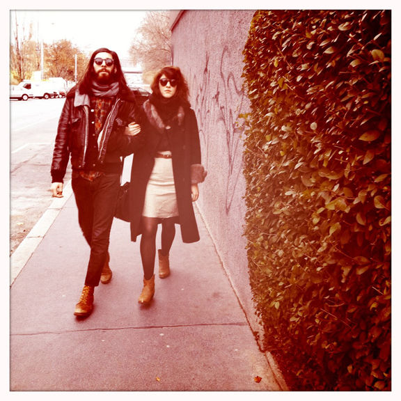 Photograph of Widowspeak on tour in Vienna, 2011.